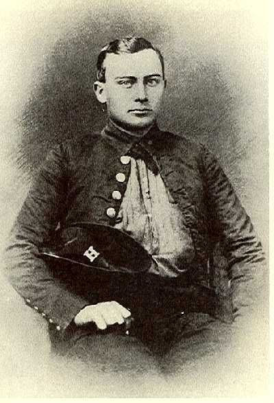 Photo of Private Sam Watkins, Confederate infantry soldier in the American Civil War, and author of the famous postwar memoir "Co. Aytch: Or, a Sideshow of the Big Show" (1882)